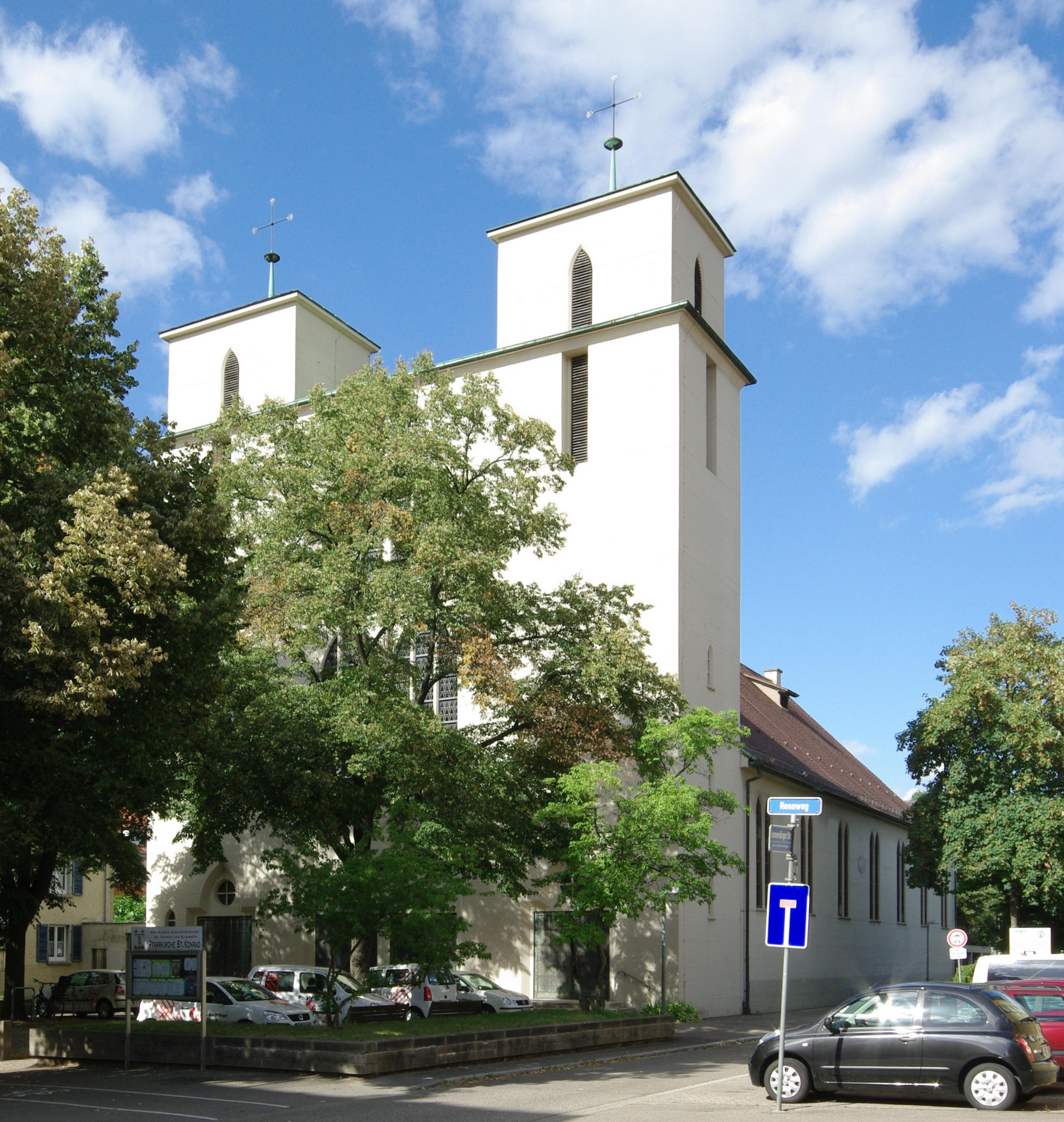 St. Konrad and Elisabeth. Architect Carl Anton Meckel, build with concrete in 1929/30 by Brenzinger & Cie., Freiburg.